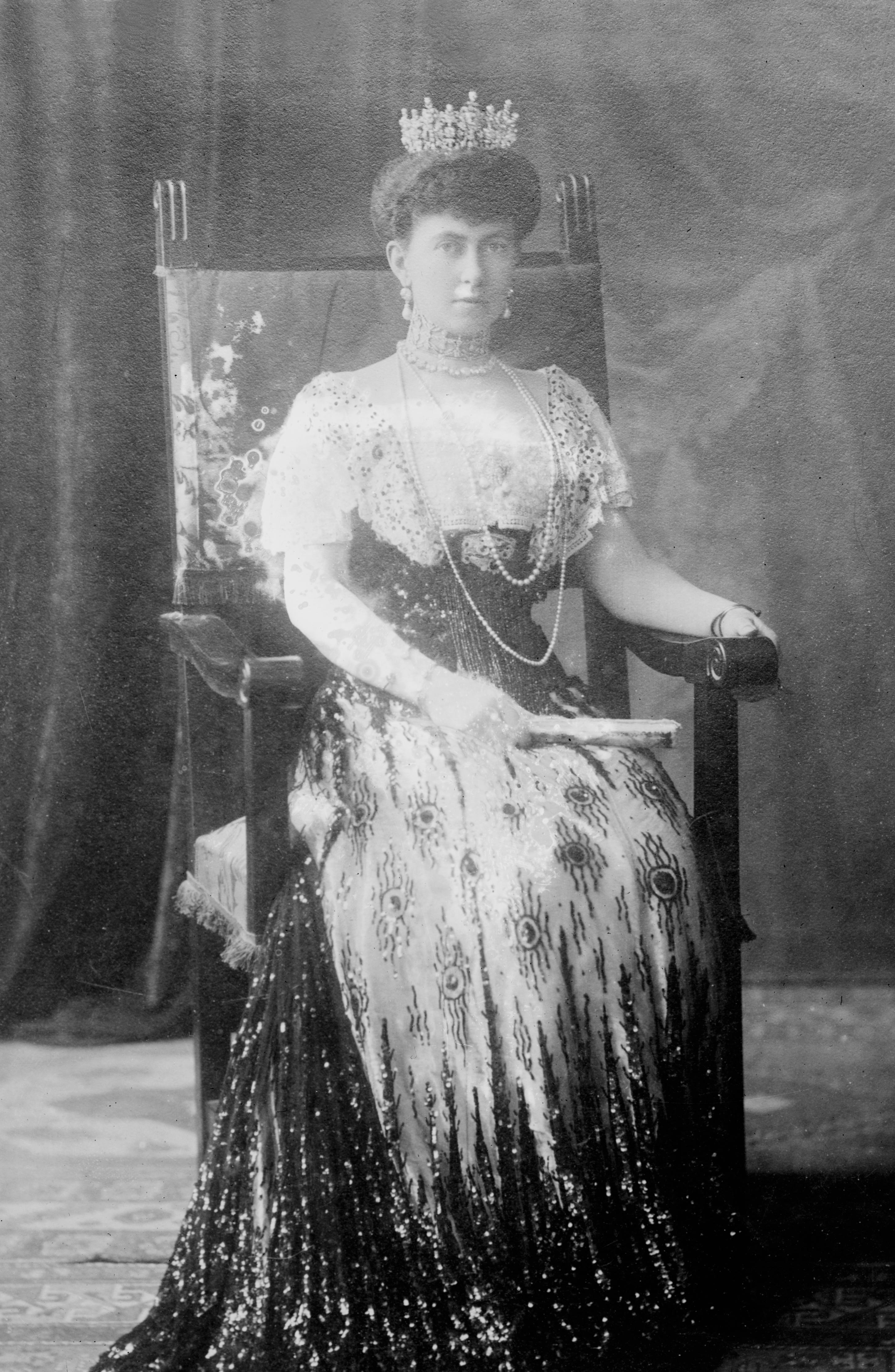 Sophia of Prussia, Queen of Greece